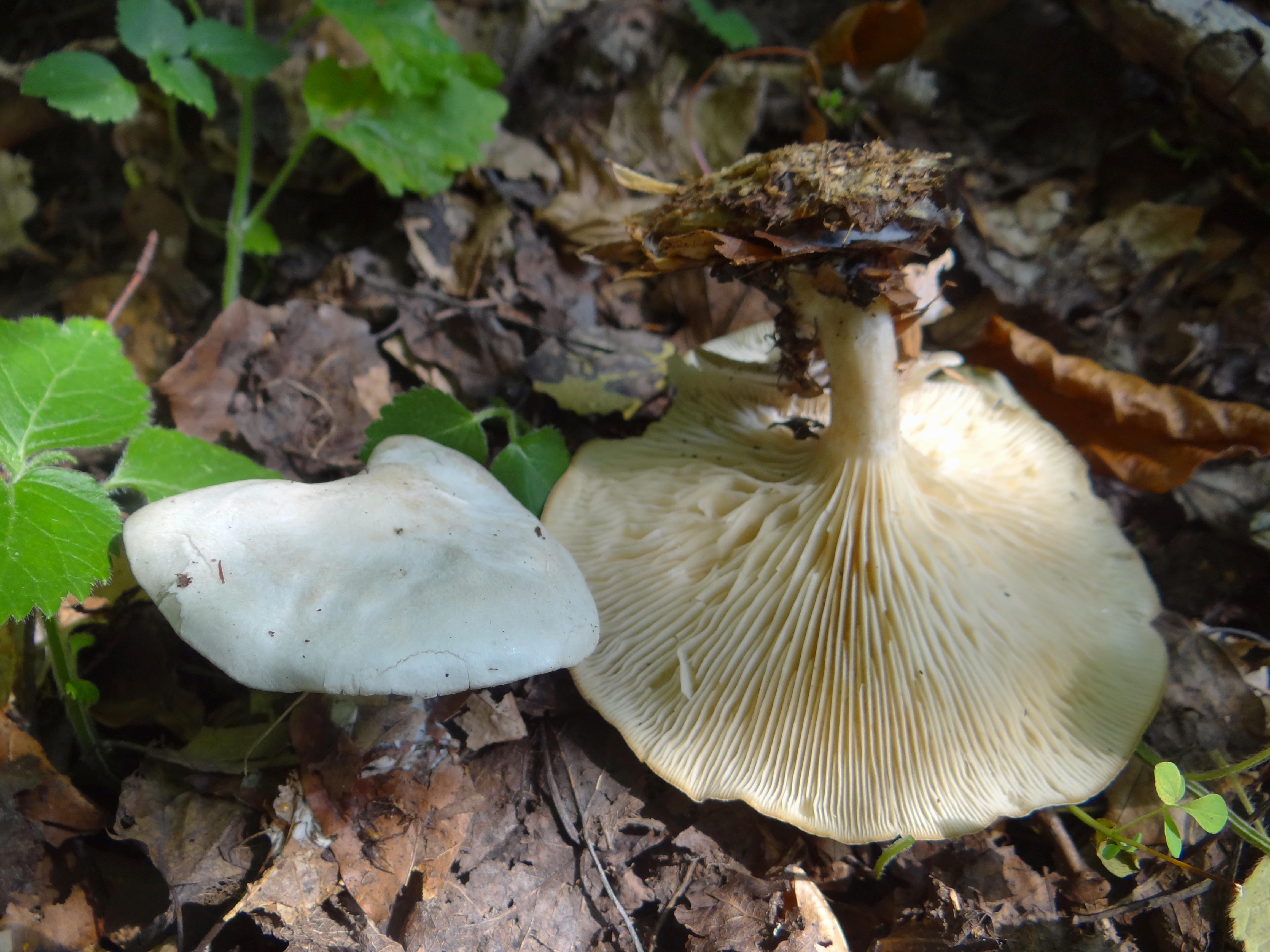 Clitocybe phyllophilla (location: Poland)